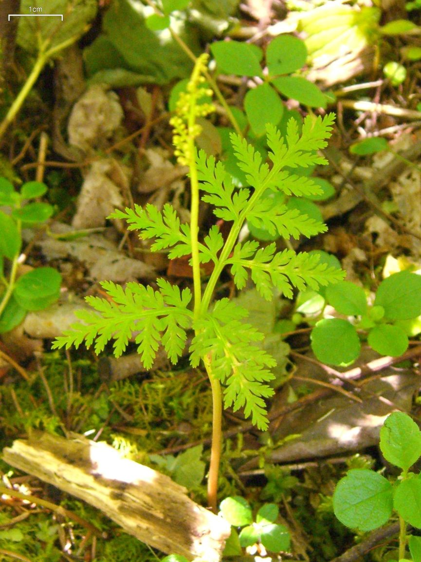 Botrychium virginianum (L.) Sw. 20090717.2 Edgewood Blue, Wells Gray Park, BC